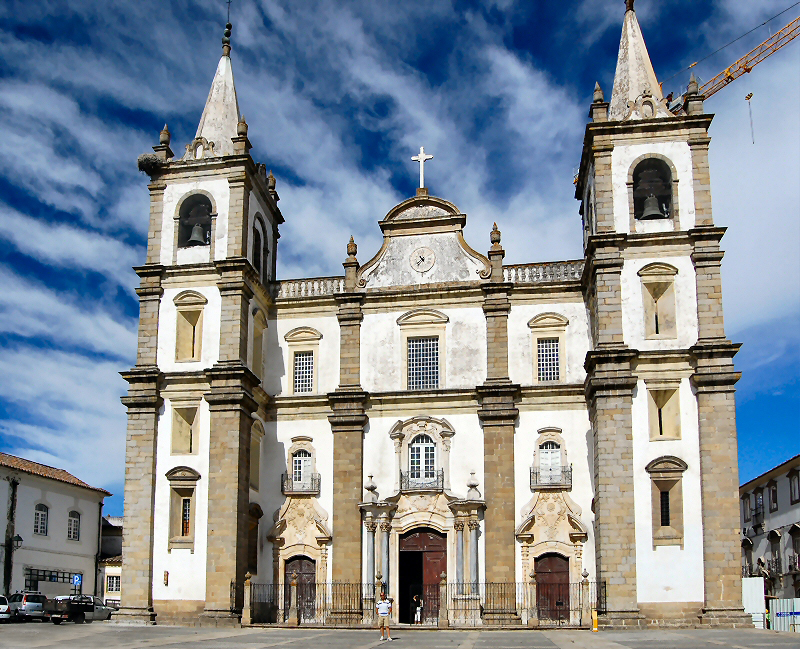 Portalegre_Municipality